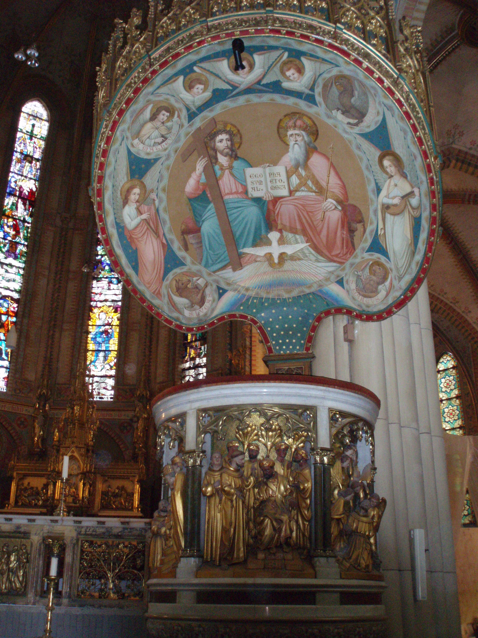 H. Trinity on a pulpit, Maria van Jessekerk, Delft, Netherlands